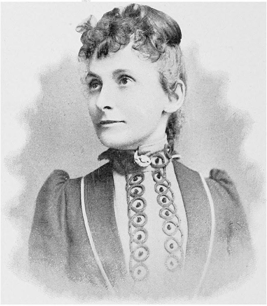 Frontispiece to section by Annah Robinson Watson in folklore transactions.